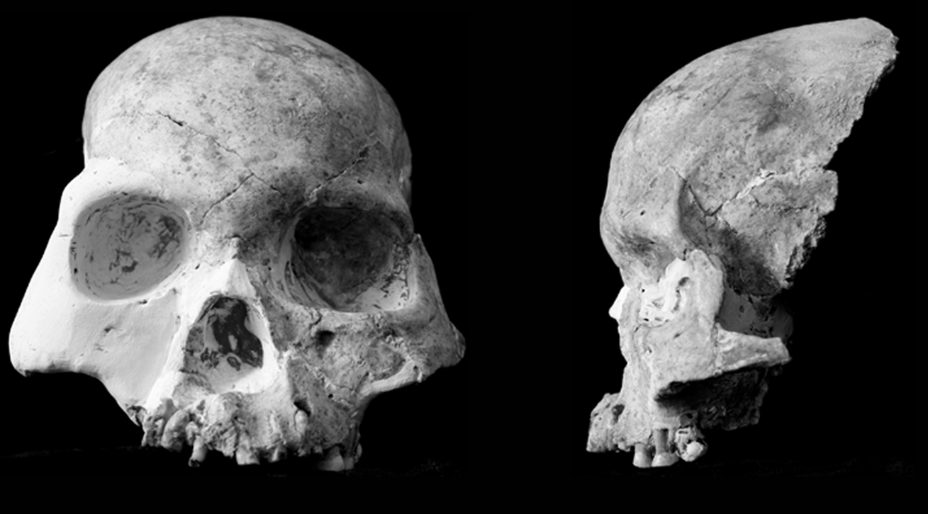 Longlin 1 partial skull found in Longlin Cave in the Guangxi Zhuang region of China